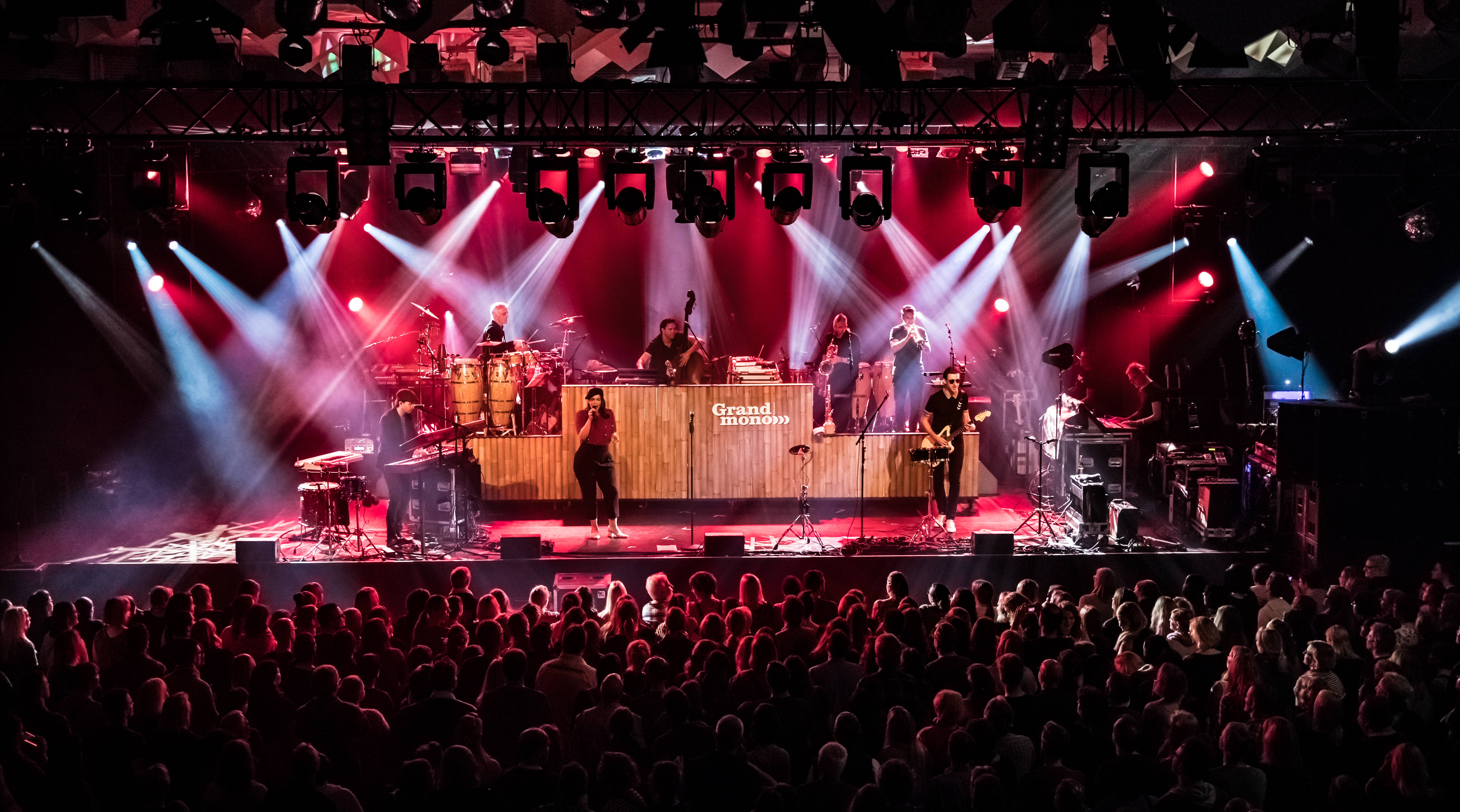 Caro Emerald - Leverkusener Jazztage 2017